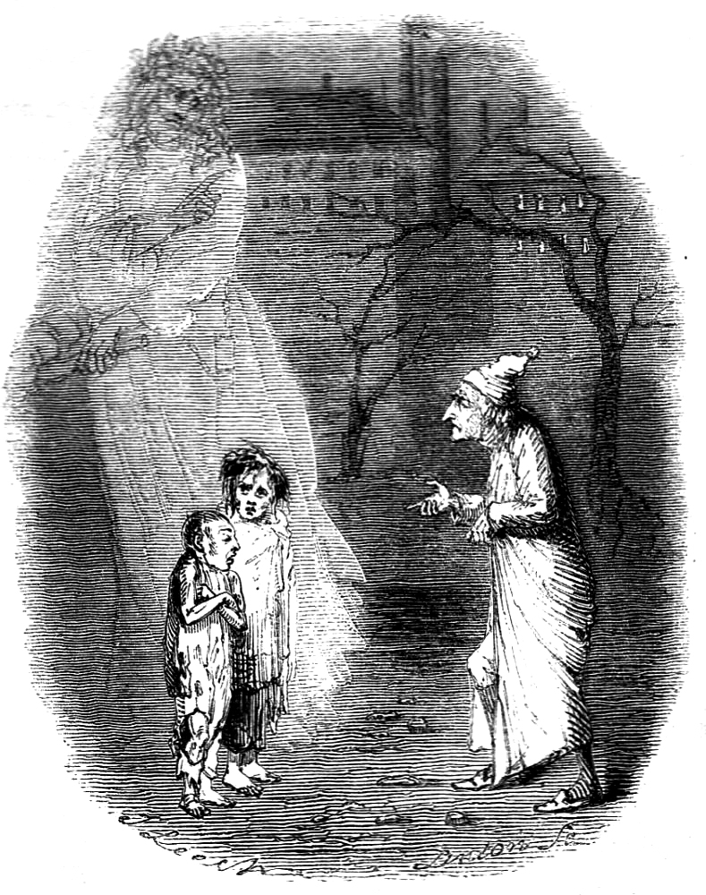 Ignorance and Want, woodcut — from A Christmas Carol by Charles Dickens (1812-1870)